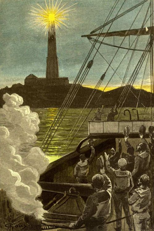 An illustration from Jules Verne's novel "The Lighthouse at the End of the World" (1901) drawn by George Roux.